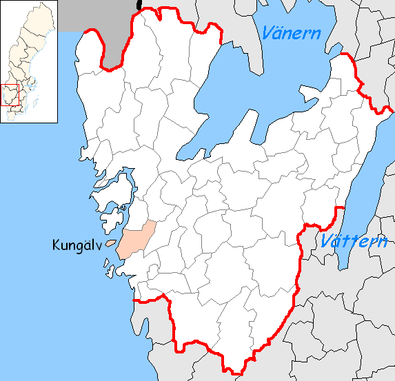 Kungälv Municipality in Västra Götaland County Designed by me. Mere outlines are a PD source from